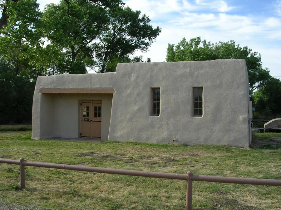 Pump house at Rattlesnake Springs — in the Rattlesnake Springs Historic District area of Carlsbad Caverns National Park, Eddy County, New Mexico. The 1933 Pueblo Revival style adobe pump house is on the National Register of Historic Places in Carlsbad Caverns National Park.